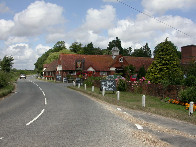 Walhampton, The Walhampton Arms Calling itself a country inn; once, according to an information board, model dairy at Home Farm, Walhampton. Internally, polygonal bar, serving Ringwood Best & Forty Niner, Butcombe Best, Gale's HSB; eating areas to left & right, patio at front. Note the dove-cote & weather-vane. Listed by English Heritage, For some customer reviews